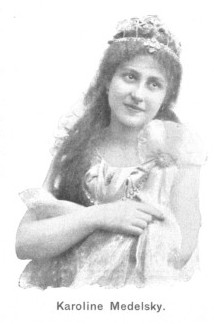 Portrait of Karoline (Lotte) Medelsky (1880-1960), Austrian actress.